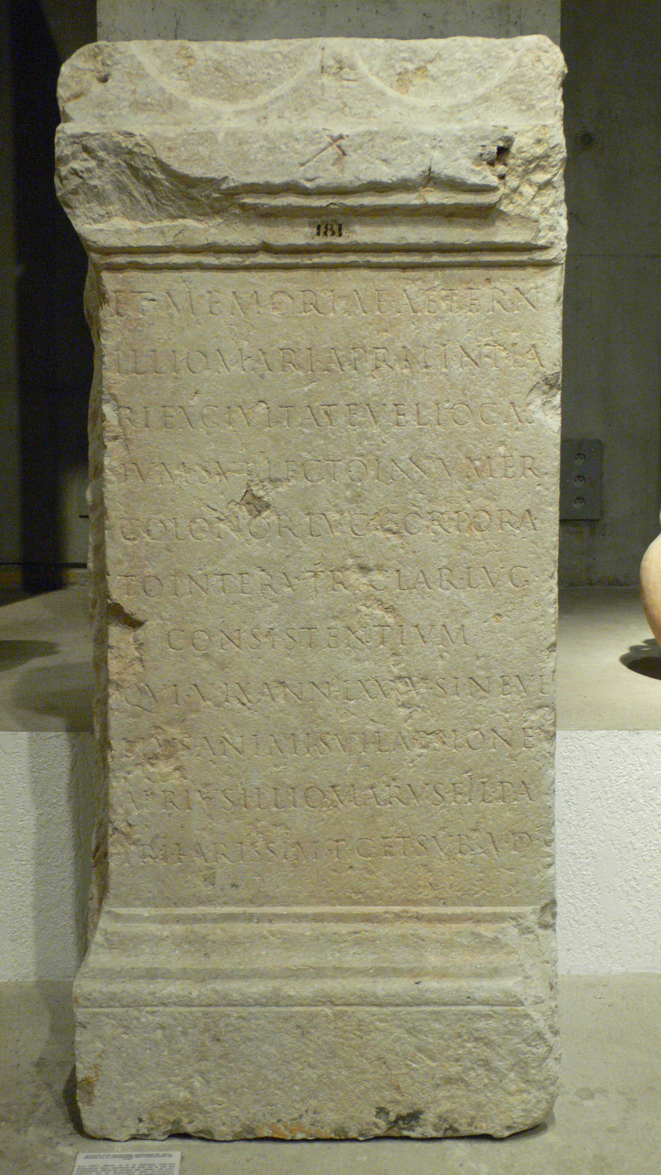 Cippus dedicated to a man from the city of the Veliocasses. Found in Lyon.